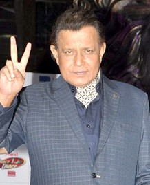 This is a picture of Indian film actor Mithun Chakraborty. It is trademarked by Bollywood Hungama, who allows its use as per Creative Commons 3.0 licensing.